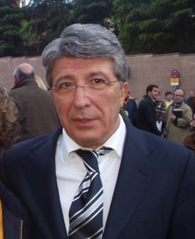 Enrique Cerezo, Spanish film producer and president of Atlético de Madrid (image has been cropped)